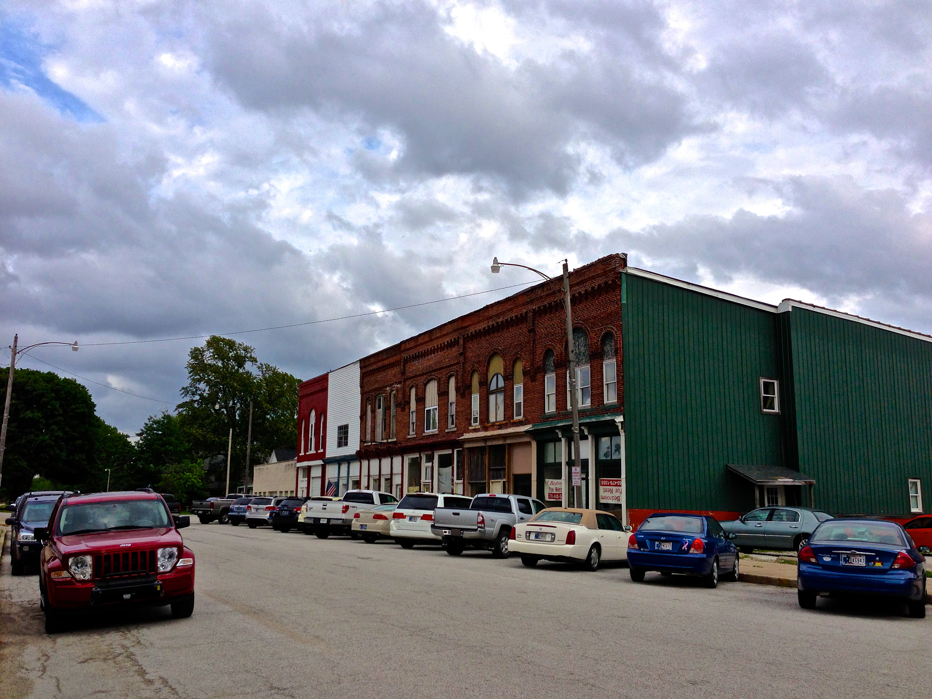 A south-facing view of Downtown Chalmers, Indiana.